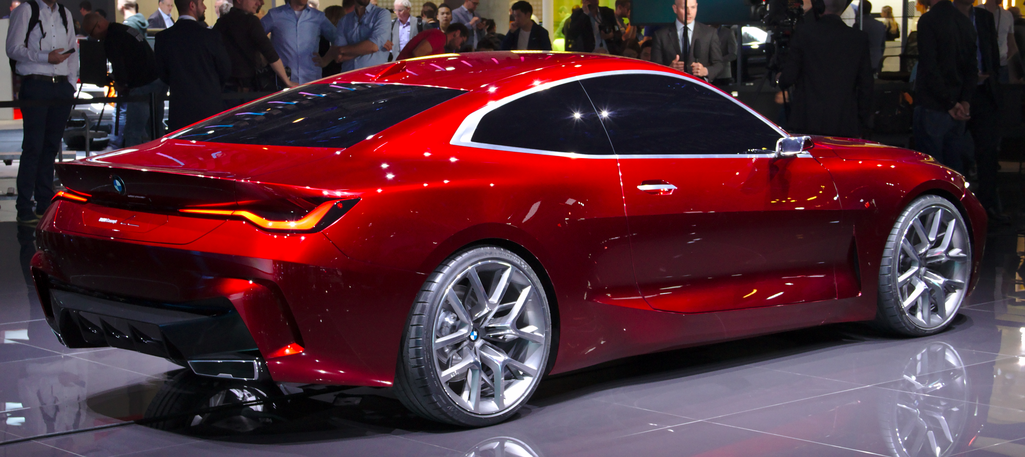 BMW_Concept_4 at IAA 2019